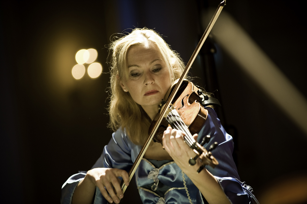 Angelika Lichtenstern by the premiere of the Nymphenburger Schlossonzerte 18.10.08